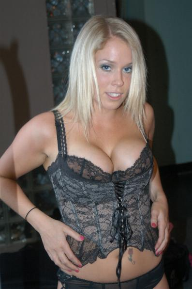 Jamie Brooks, On Set With Defiance Films, July 13, 2005.